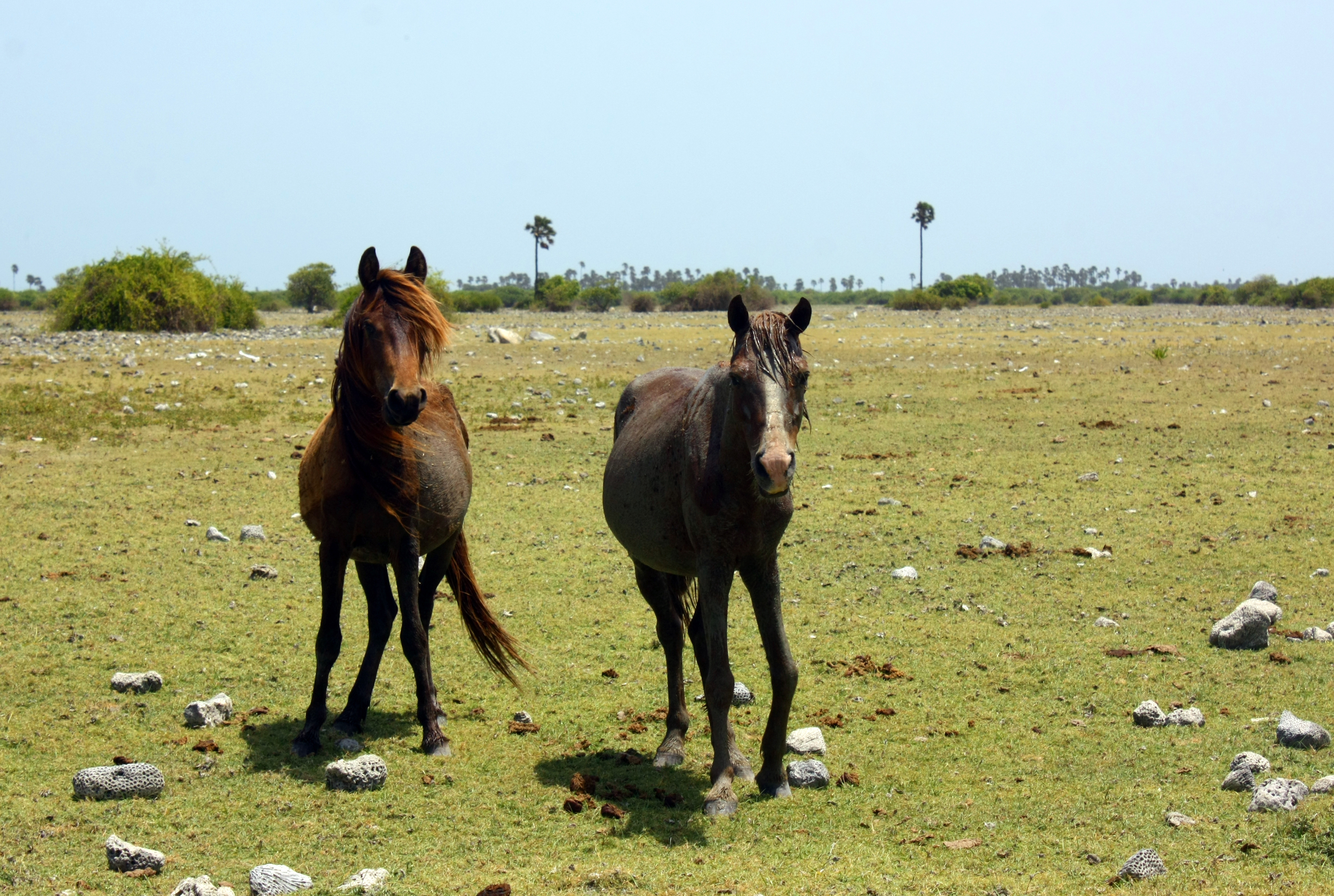 Wild horses in Delft Island (Nedunthivu). They consider as wild ponies too